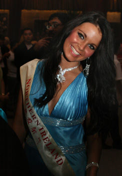 Miss Northern Ireland 2007 - Melissa Jane Patton in Miss World 07, Sanya, China